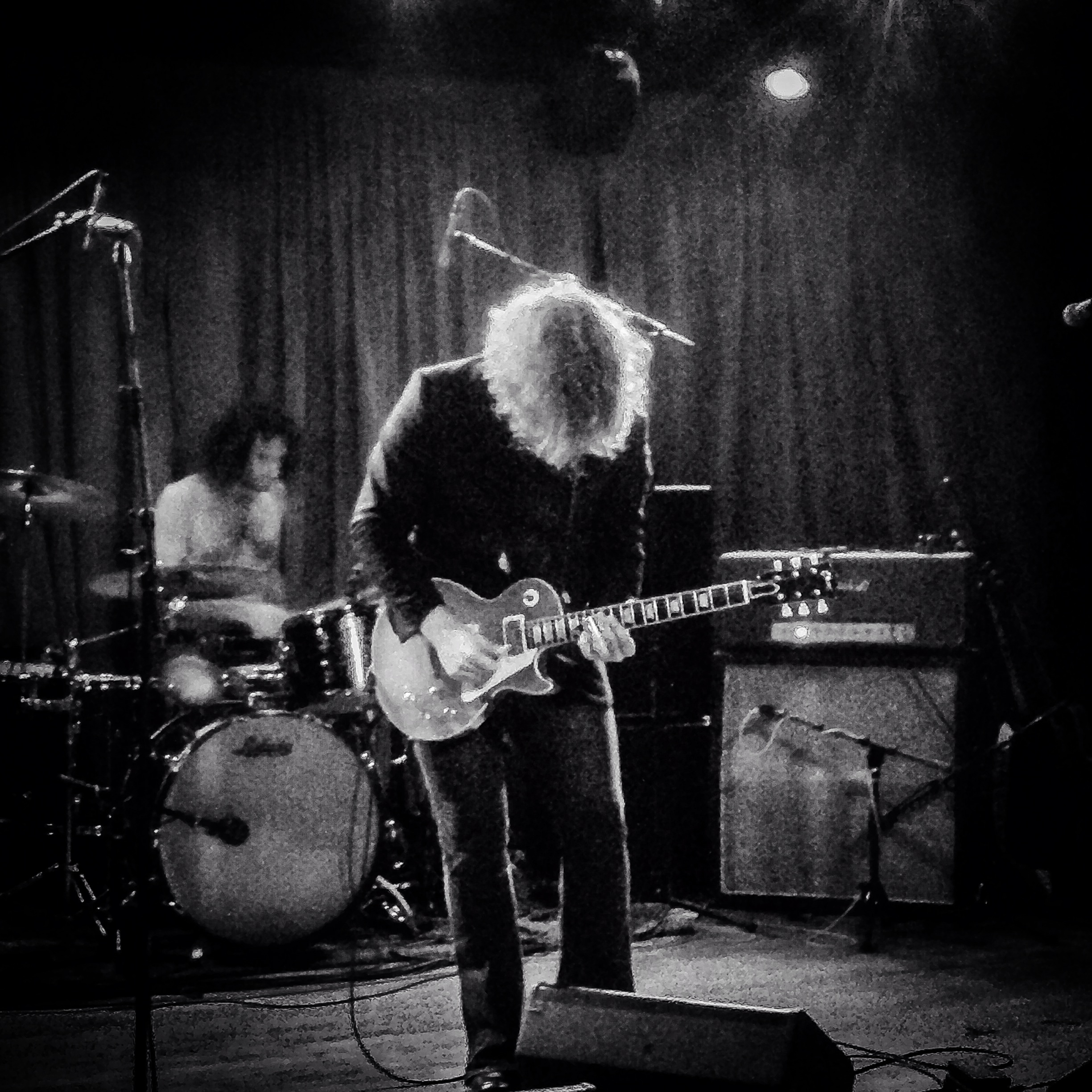 Mercy Lounge, 10 Sept 2014, Nashville TN